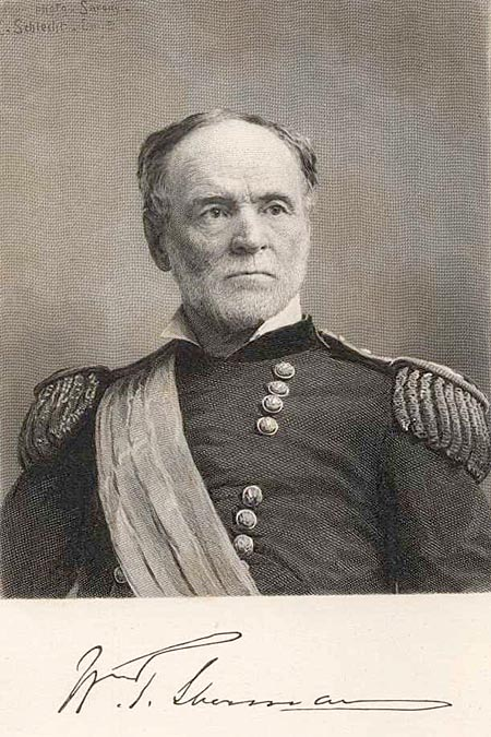 One of the last photos of Sherman, taken by Napoleon Sarony, 1888, three years before Sherman's death. Sarony's signature can be discerned in the upper left corner of the photo.